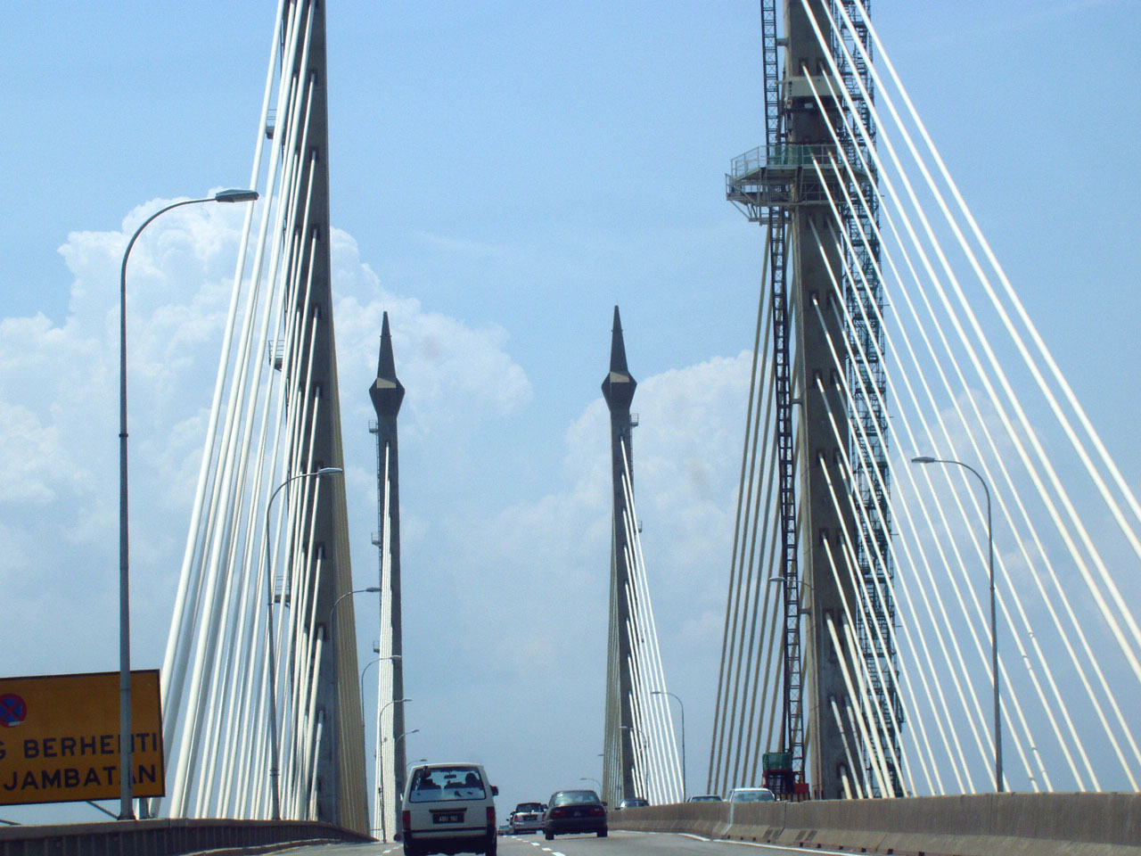 Centre of Penang Bridge, Penang, Malaysia. Showing the cable-stayed part of the bridge. Taken in 2005 using an Olympus camera.